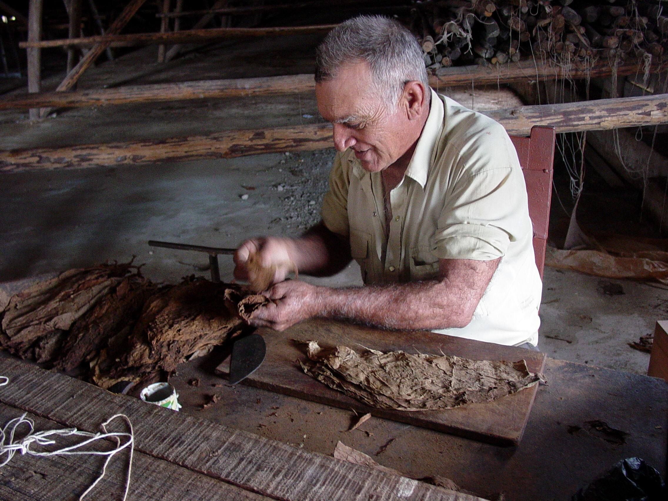 Tobacco roller on plantation near Pinar del Rio, Cuba. December 2006.